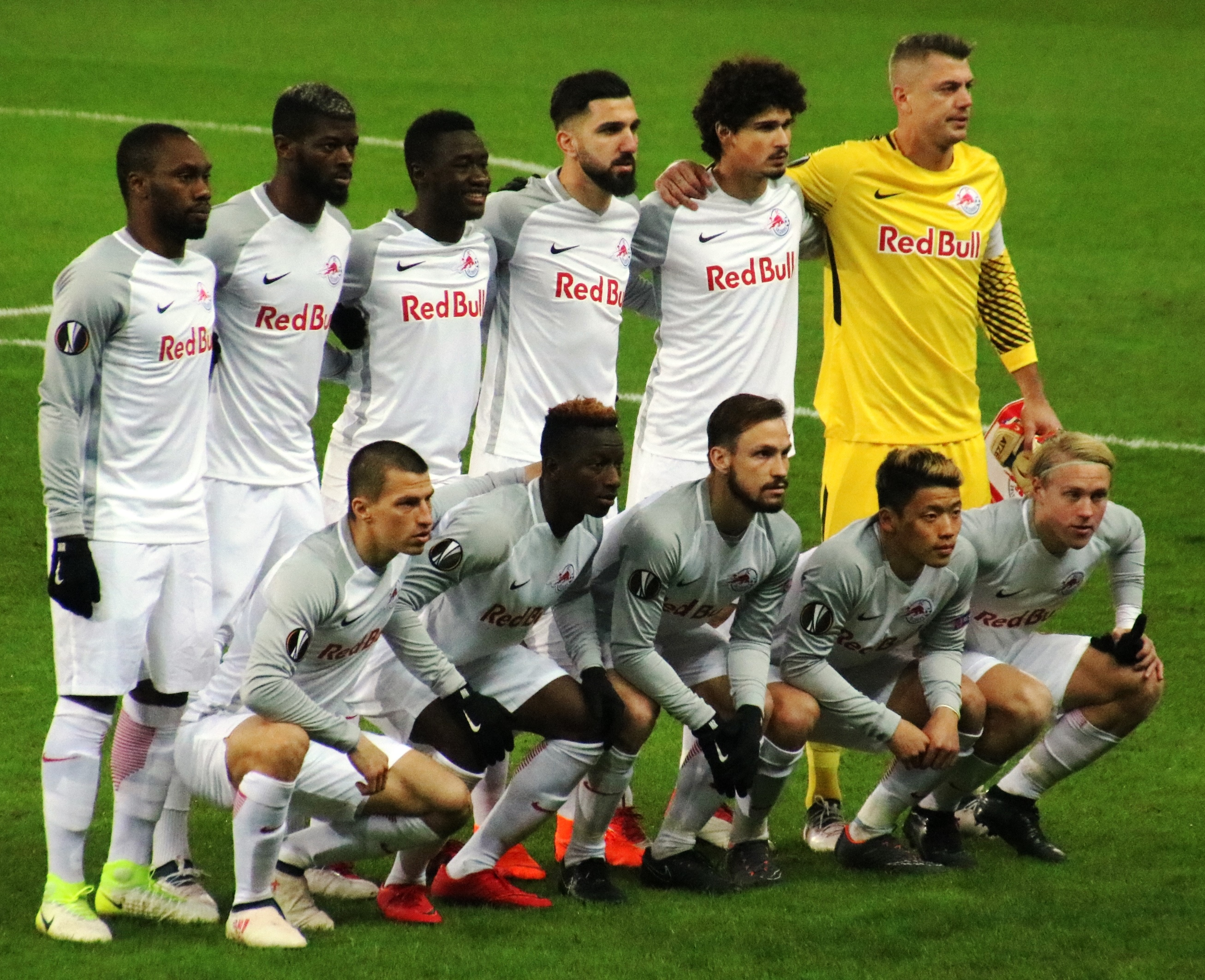 Uefa Europaleague round of 32